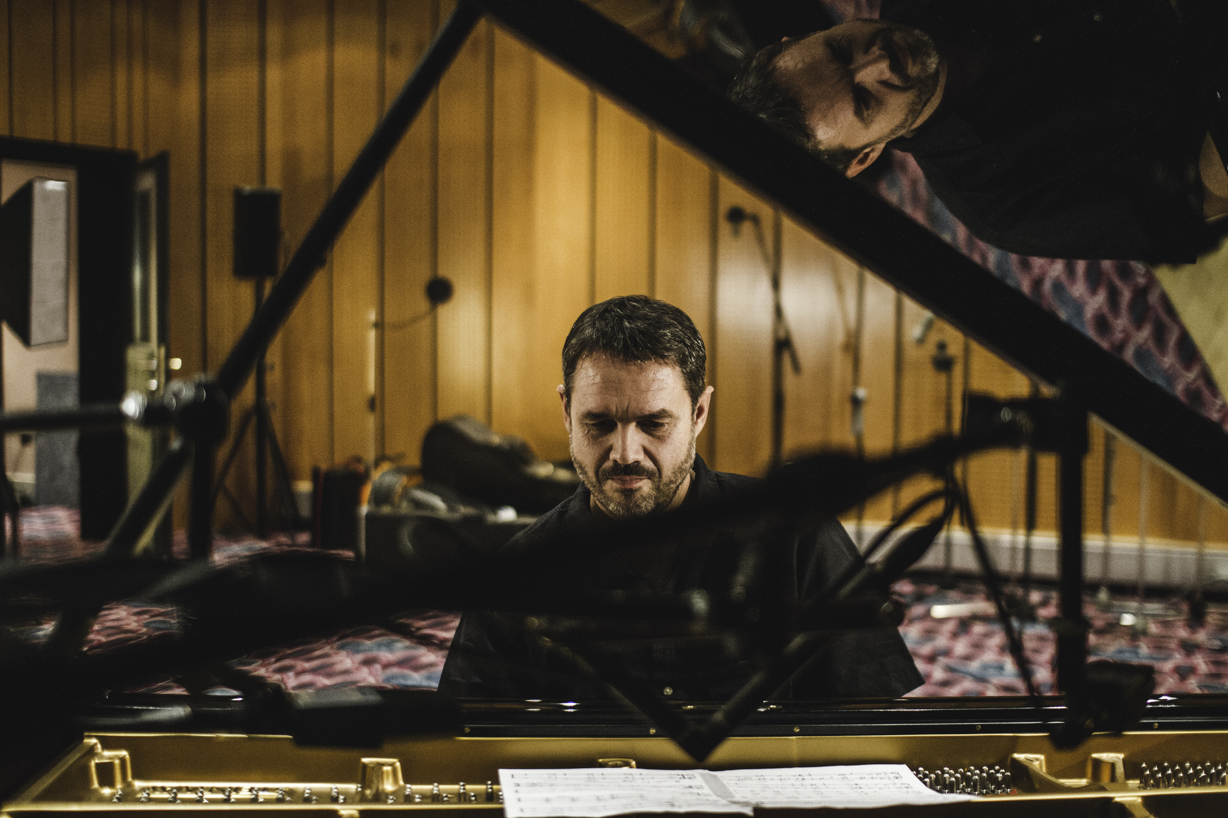 Stefan Frommelt @ Little Big Beat Studios 2017